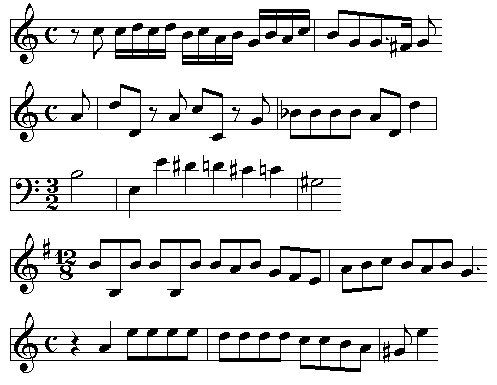 Musical quotation from five fugues by Dieterich Buxtehude (c1637–1707). Made using Sibelius 4 by Jashiin. The music quoted is in the public domain, and the image is hereby released into the public domain by Jashiin. The pieces quoted are, in order of appearance: BuxWV 137 — Prelude in C major, BuxWV 140 — Prelude in D minor, BuxWV 142 — Prelude in E minor (twice), BuxWV 153 — Prelude in A minor.